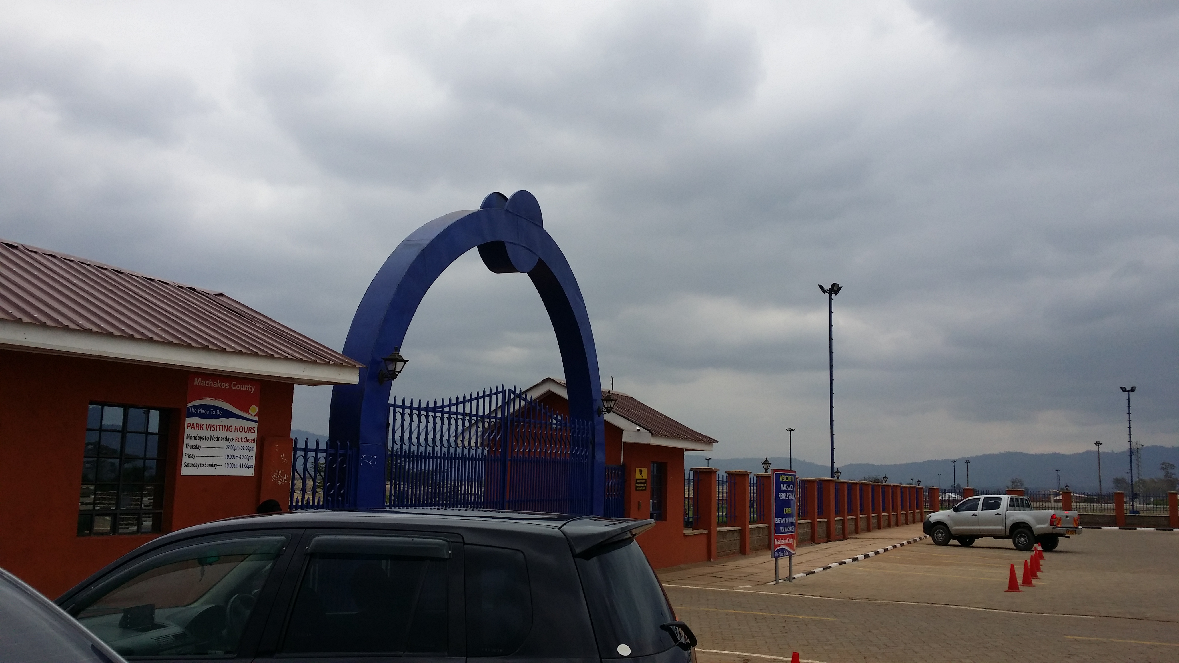 Entrance to Machakos People's Park Kiswahili: Sehemu ya Bustani ya Wananchi wa Machakos